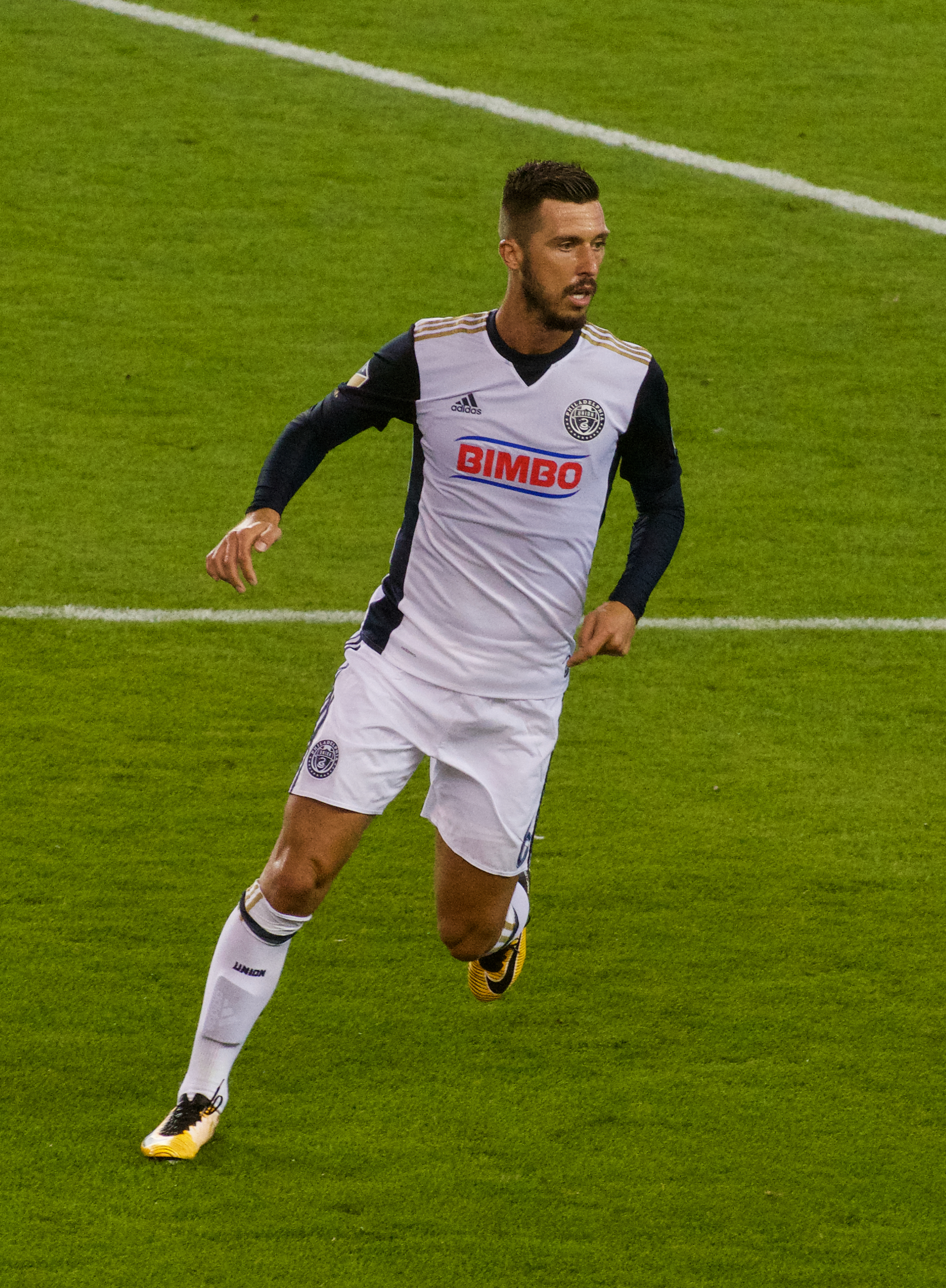 Haris Medunjanin playing for Philadelphia Union at Avaya Stadium on 19 August 2017.